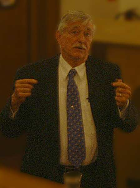 Halton Arp. 21st October 2000, University College London, speaking at a public meeting, "New Universe for a New Millennium". Credit: Ian Tresman other versions: 100px